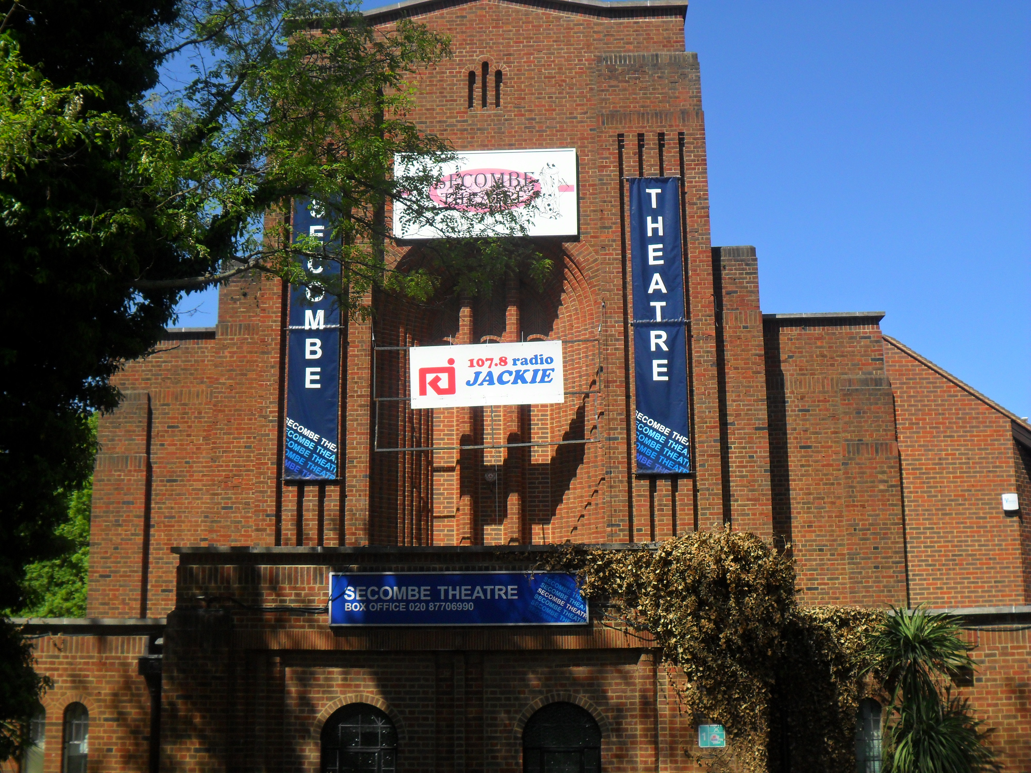 Large theatre in the centre of Sutton, Surrey, Greater London - named after Harry Secombe who lived in Sutton for 30 years.